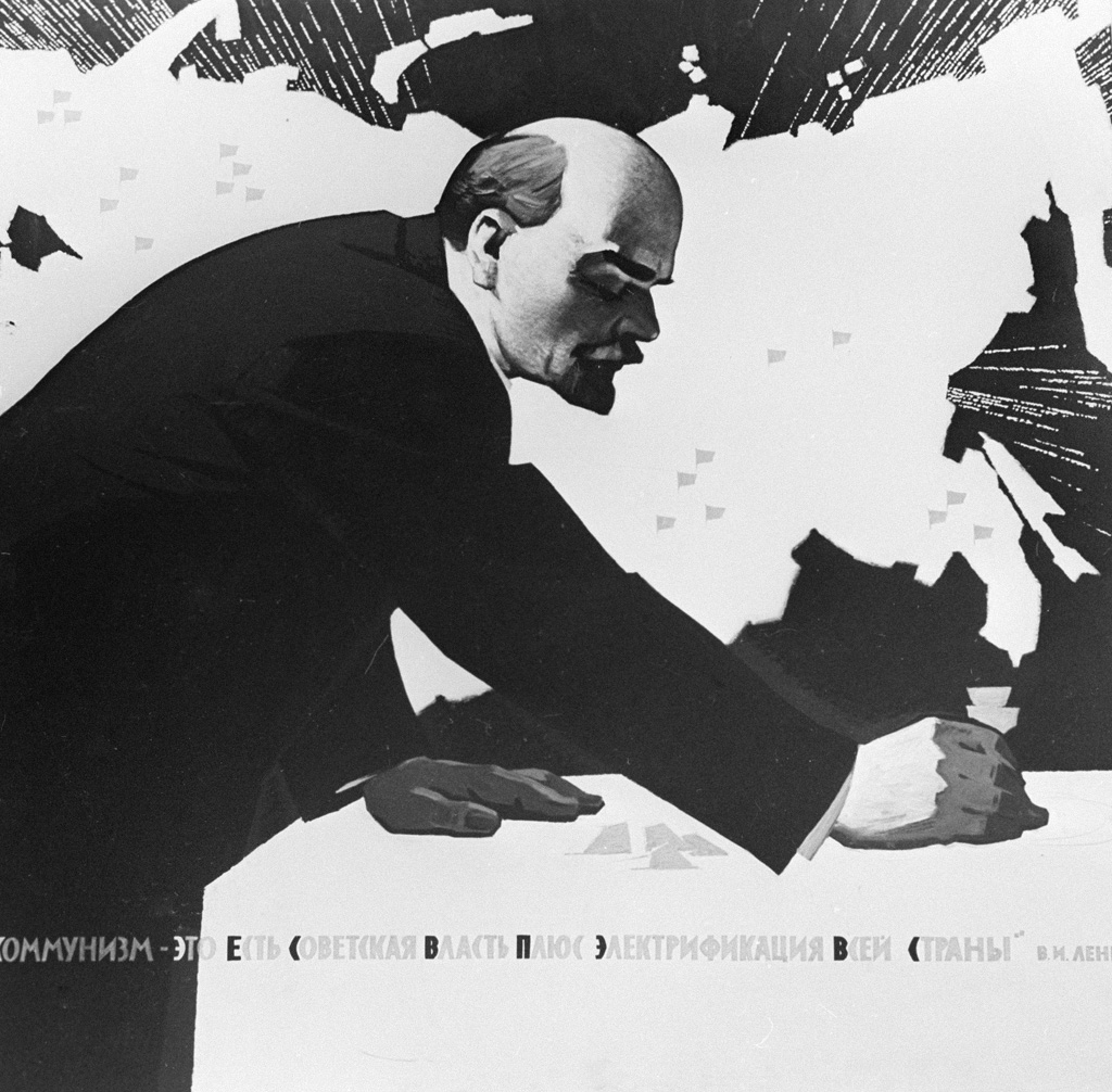 “"GOELRO Plan" poster”. "GOELRO Plan" poster (part of the triptych), by Alexander Lemeshchenko. Reproduction.